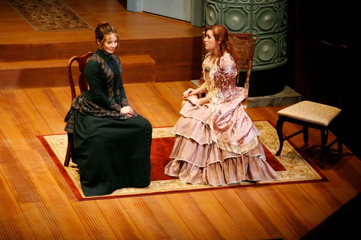 A Doll's House